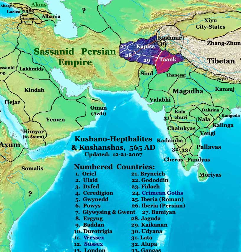 The Kushano-Hephthalite Kingdoms in 565 AD.